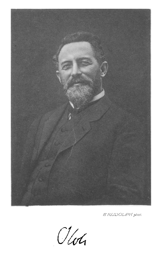 Emil Sioli